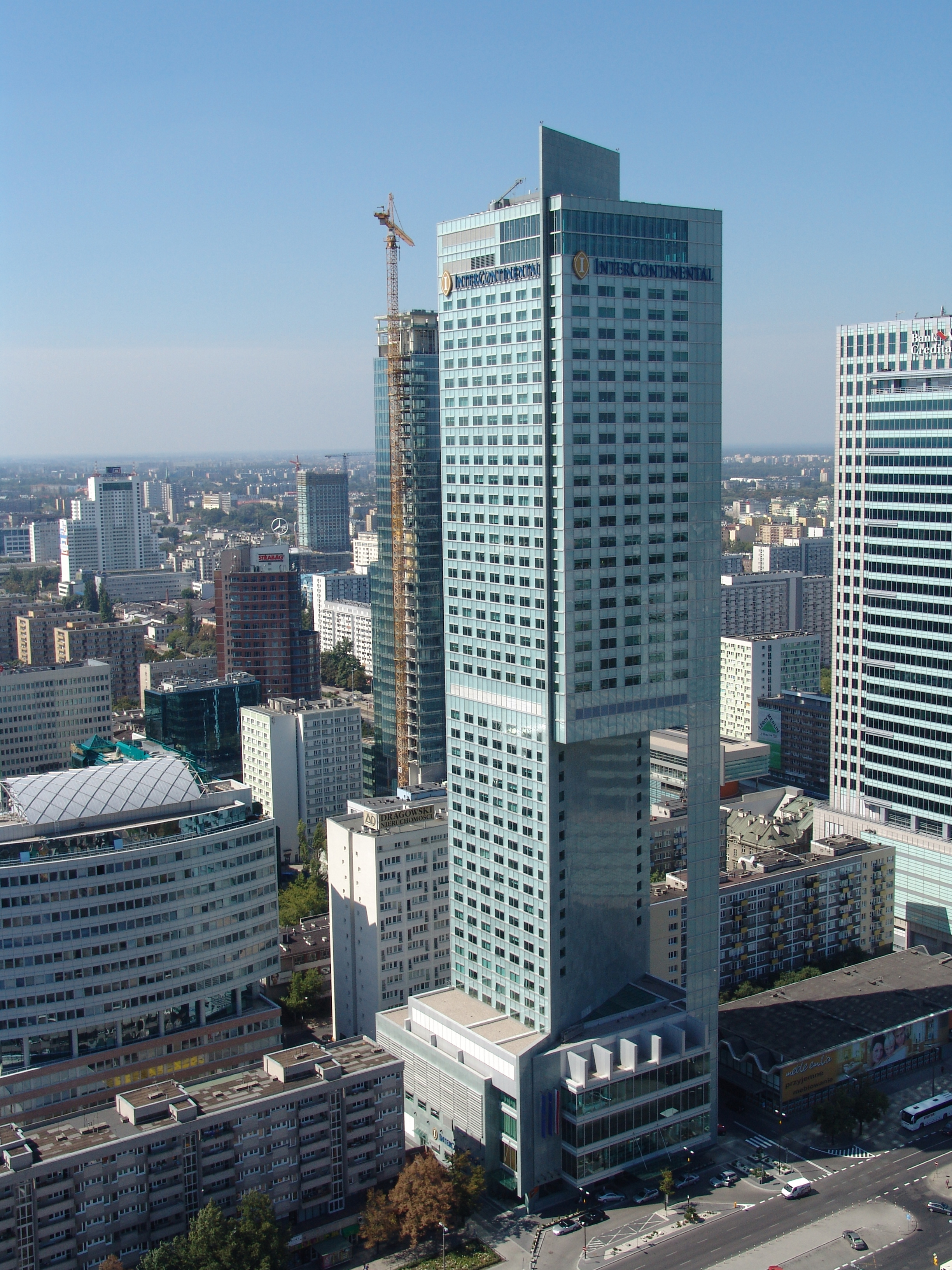 InterContinental Warsaw seen from the Palace of Culture and Science. Author: Michel Zacharz